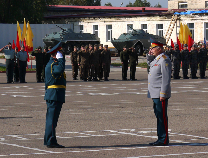 ДВВКУ